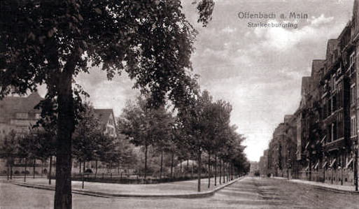 Starkenburgring in Offenbach